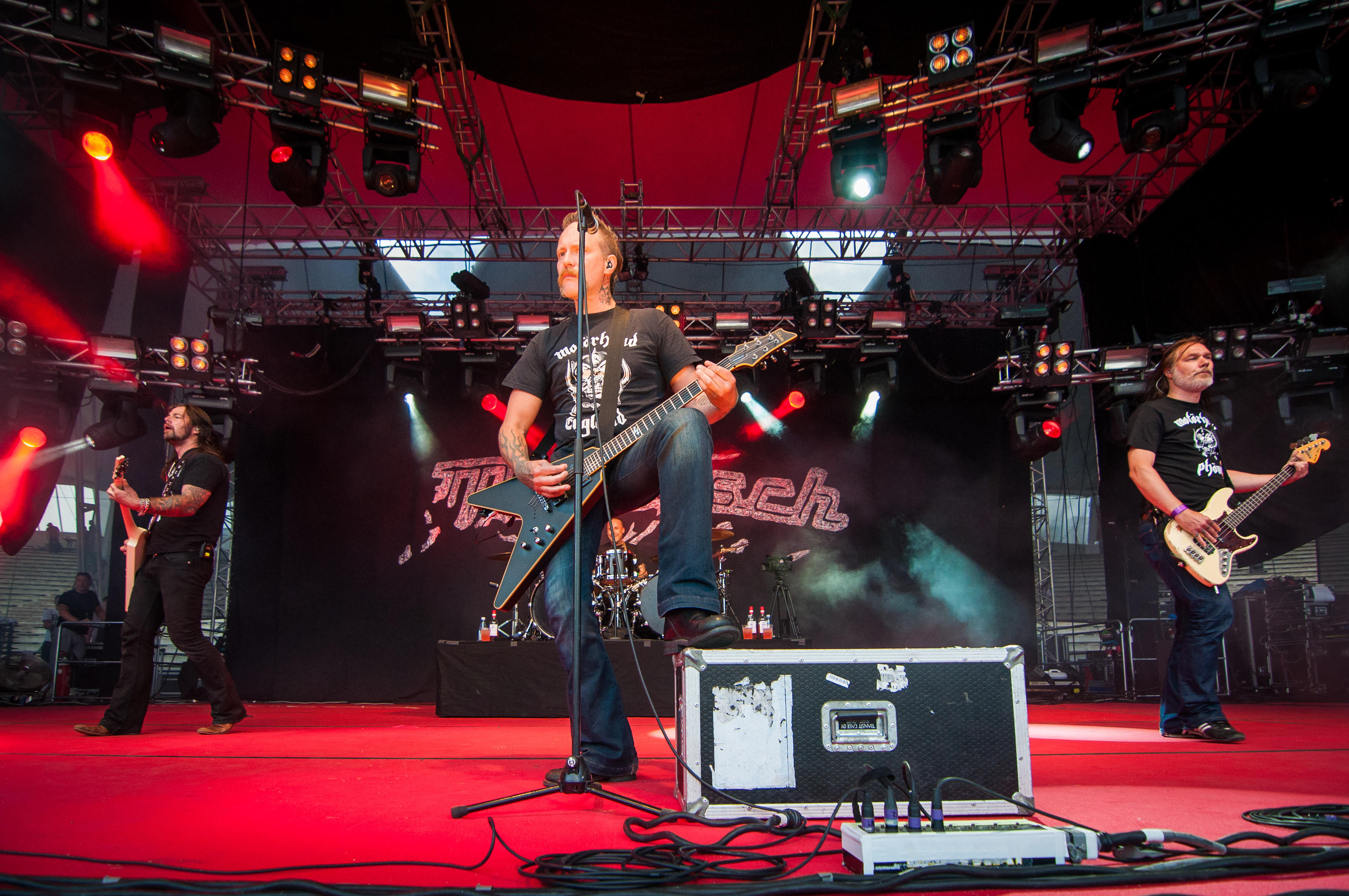 Swedish rock band Mustasch performing at the Ilosaarirock festival in Joensuu, Finland. The band replaced Motörhead who had to cancel due to Lemmy Kilmister's health problems. Mustasch wore Motörhead T-shirts to commemorate the occassion.